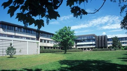 The folk high school Silkeborg Højskole in Silkeborg, Denmark